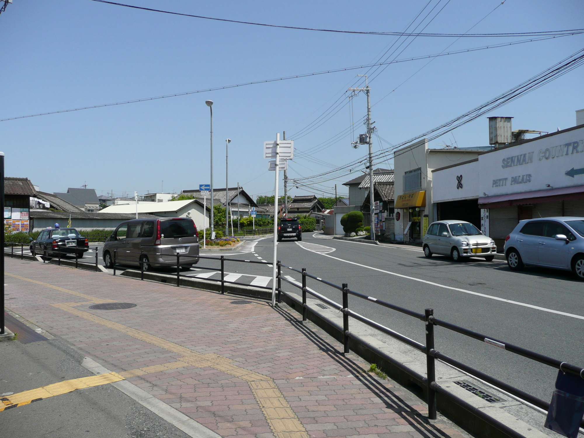 Shinge Station north plaza, JR Hanwa Line.